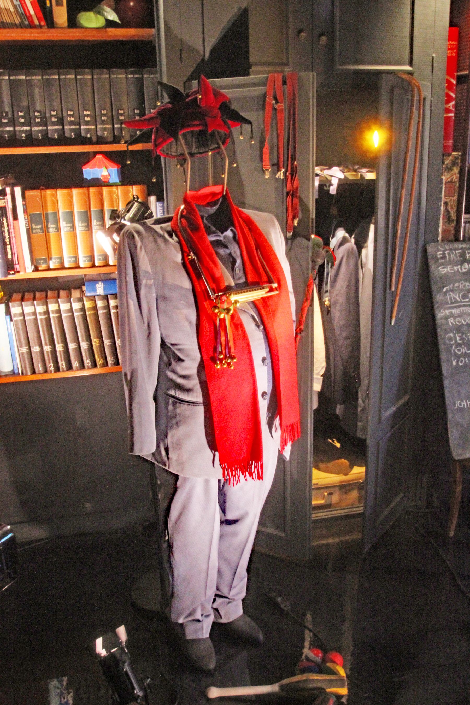 The Raymond Devos Museum is located in Saint-Rémy-lès-Chevreus, Yvelines, France. Object location48° 42′ 22.72″ N, 2° 04′ 33.53″ E